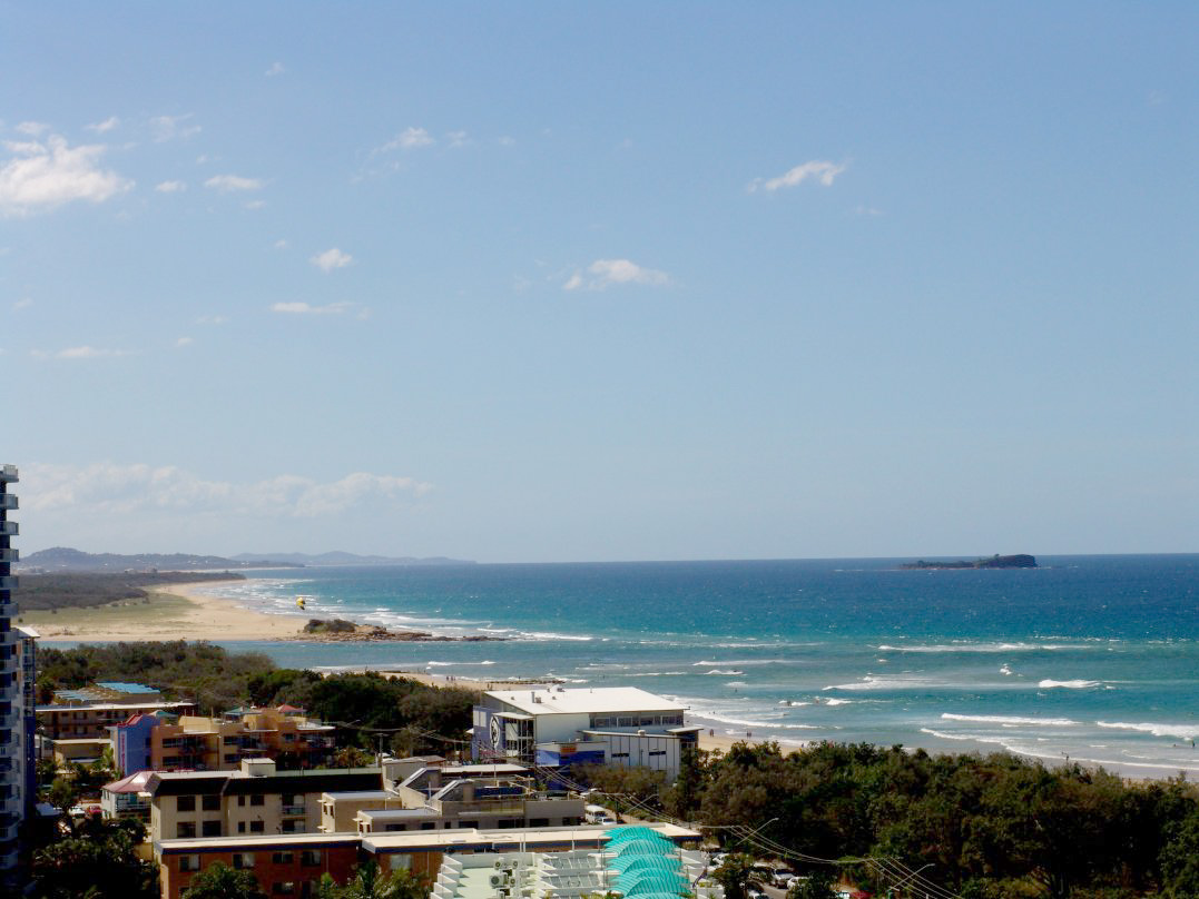 Maroochydore